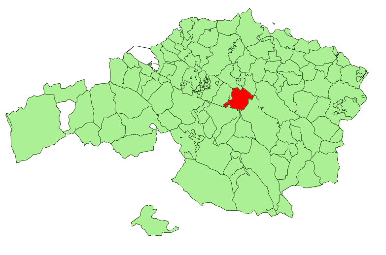 Larrabetzu municipality in the province of Biscay